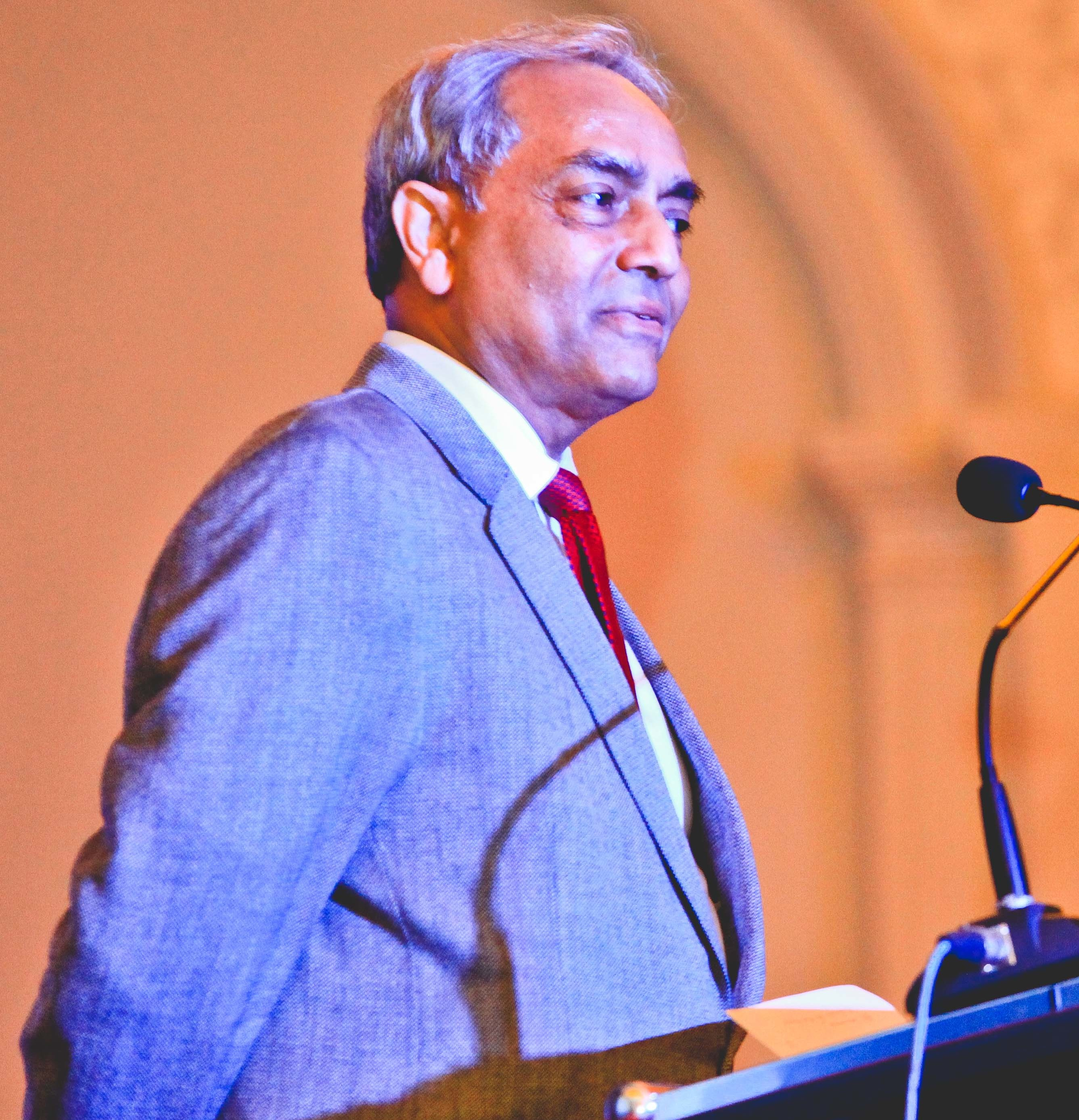 Photograph of 44th Chief Justice of Sri Lanka,Hon.Mohan Peiris.